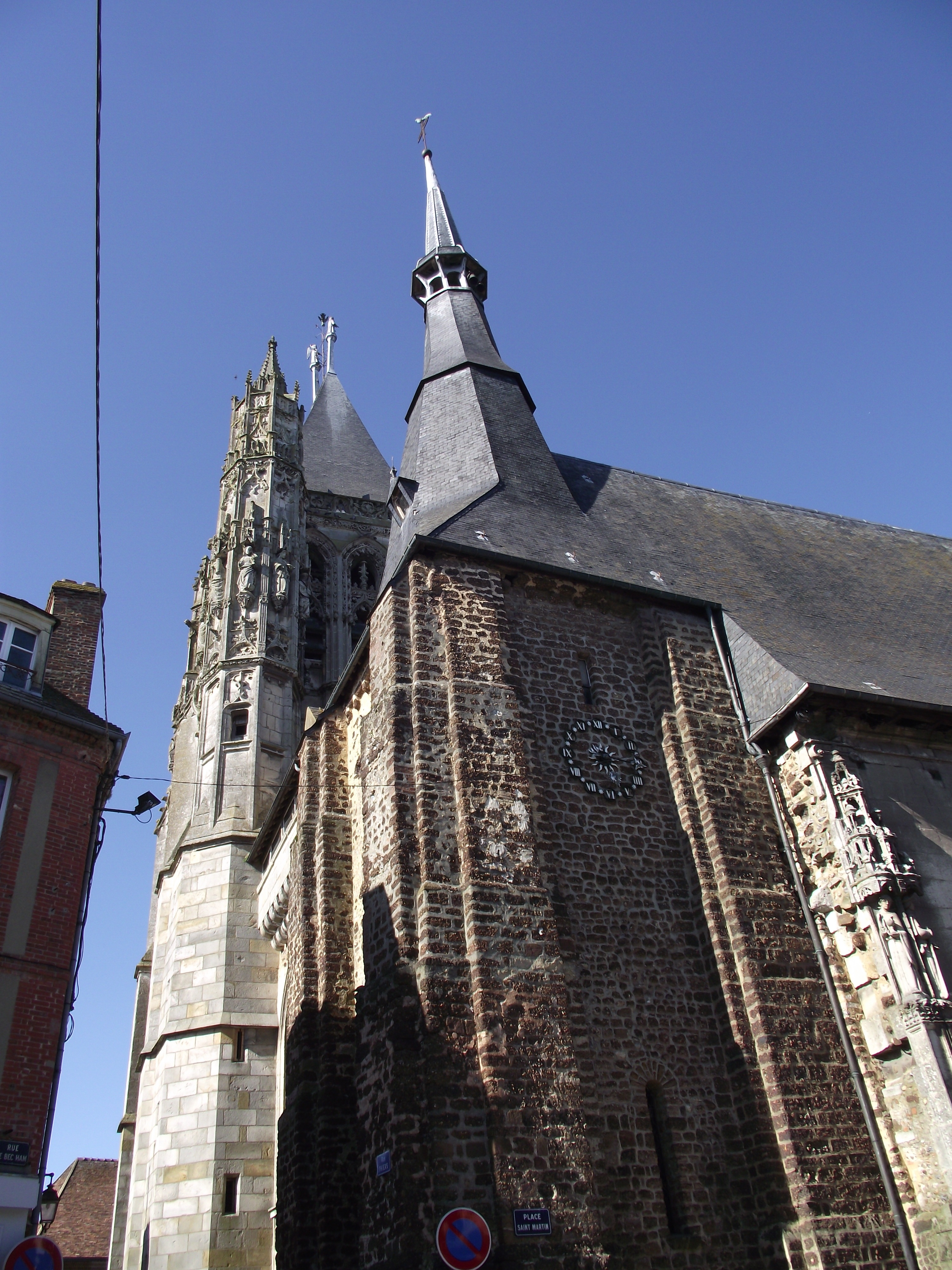 L'Aigle, Saint Martin's Church, XI-XVI Century